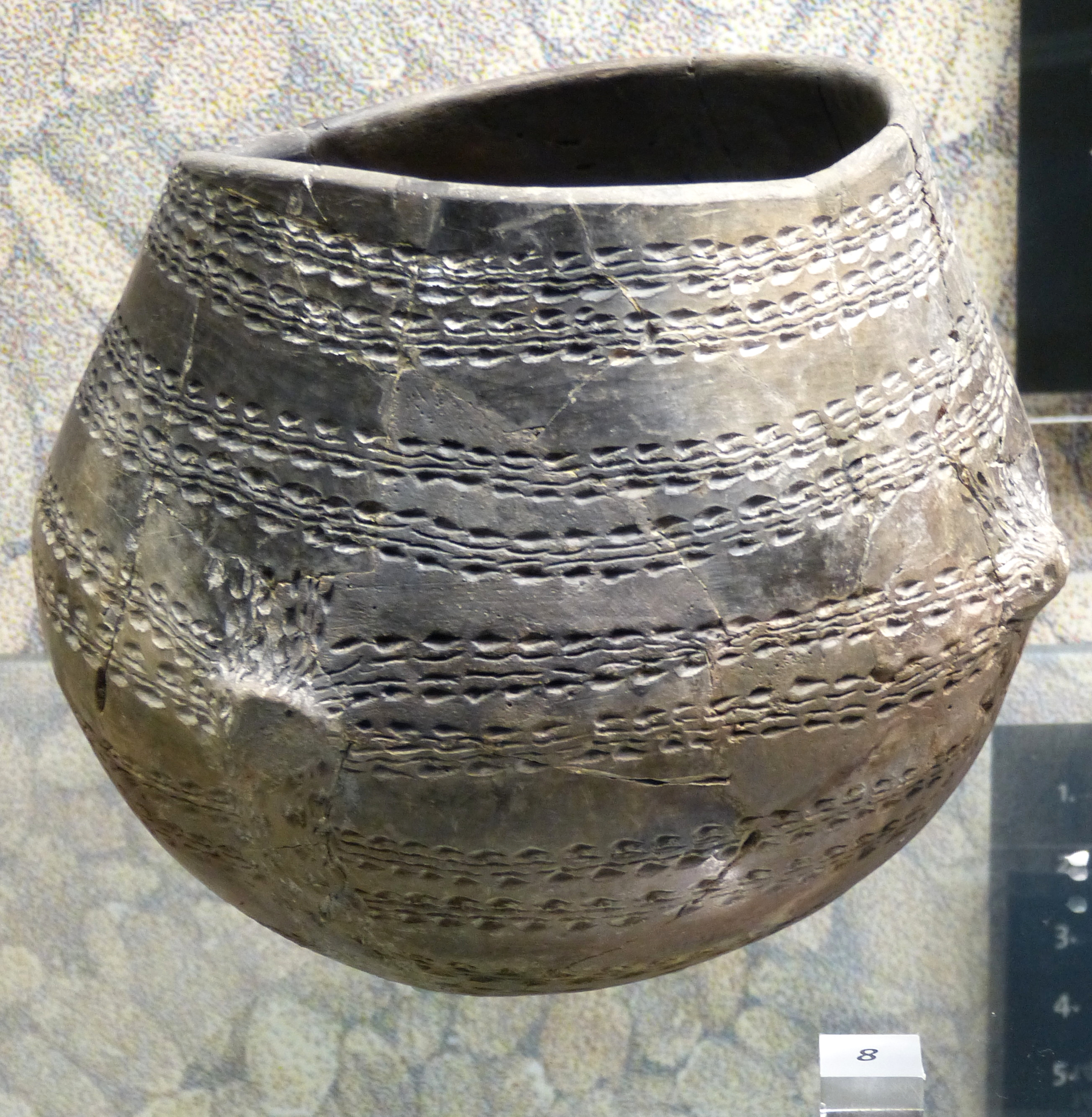 Weimar ( Thuringia ). Museum for Prehistory in Thuringia: Vessel of Stroke-ornamented Ware Culture ( 5th millenium BC ) from Bad Frankenhausen.